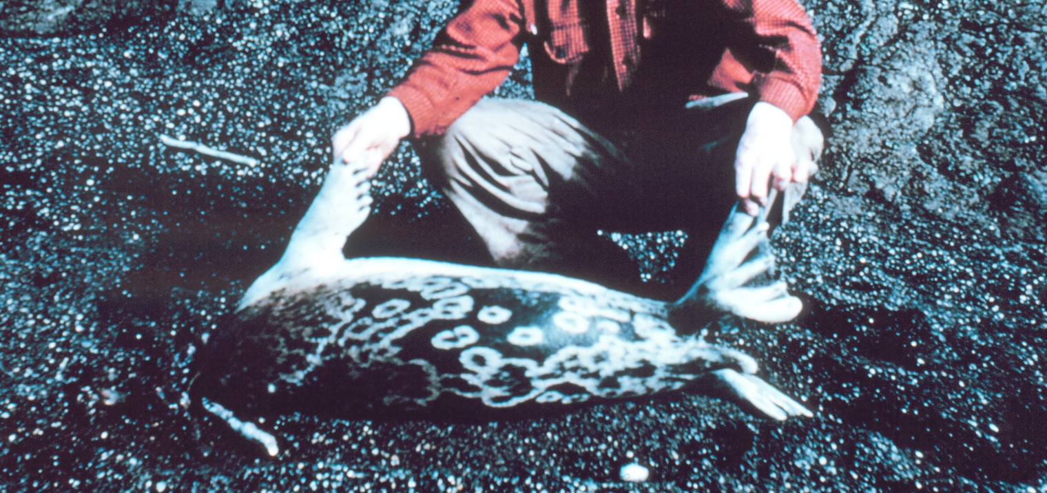 Ringed seal (Phoca hispida)